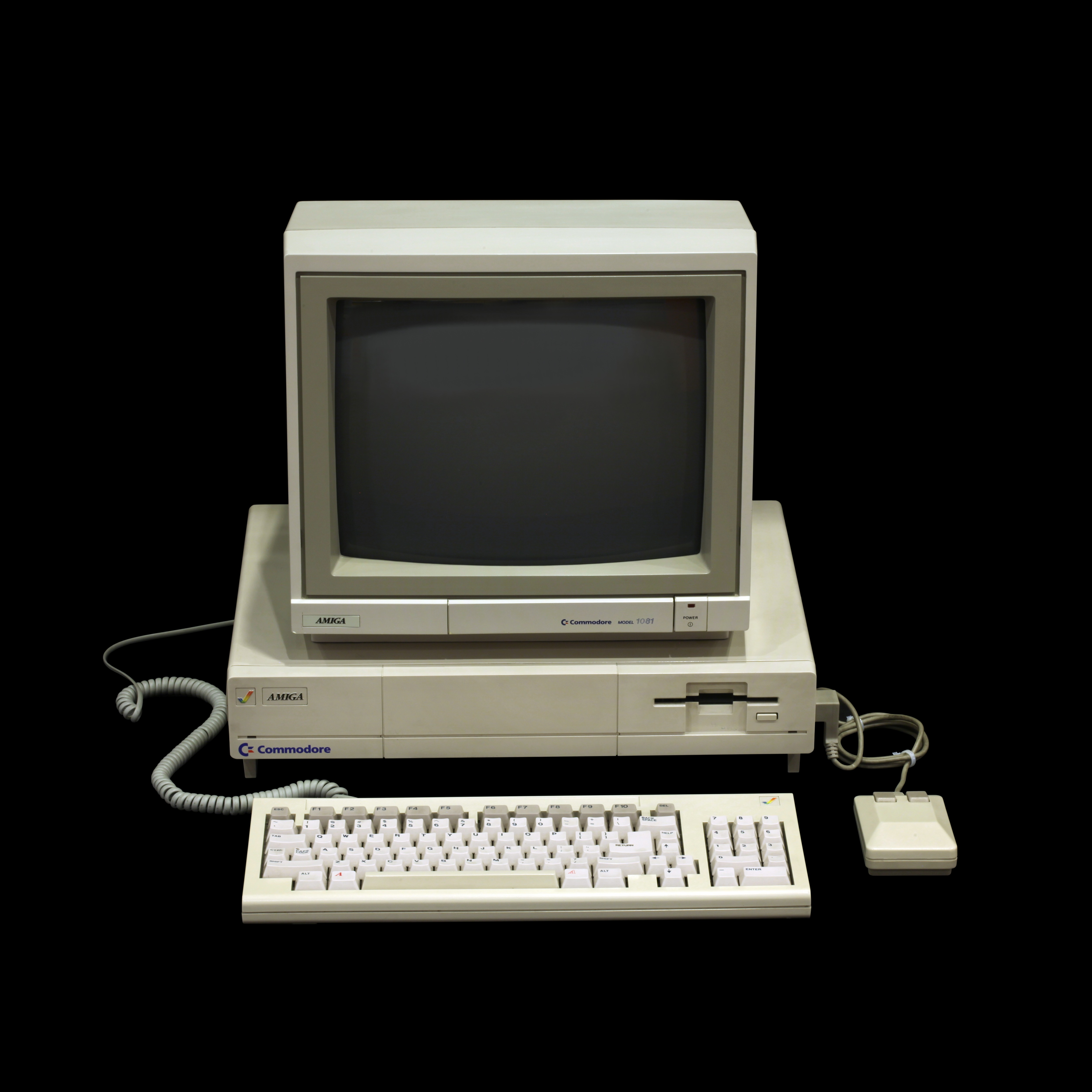 Amiga 1000 computer. On display at the Musée Bolo, EPFL, Lausanne.